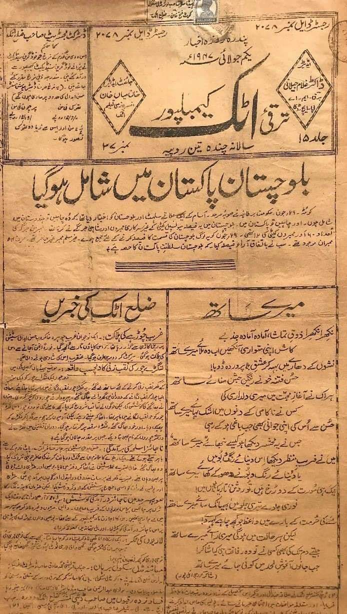 This piece of paper refers to the annexation of the Balochistan Province with Pakistan